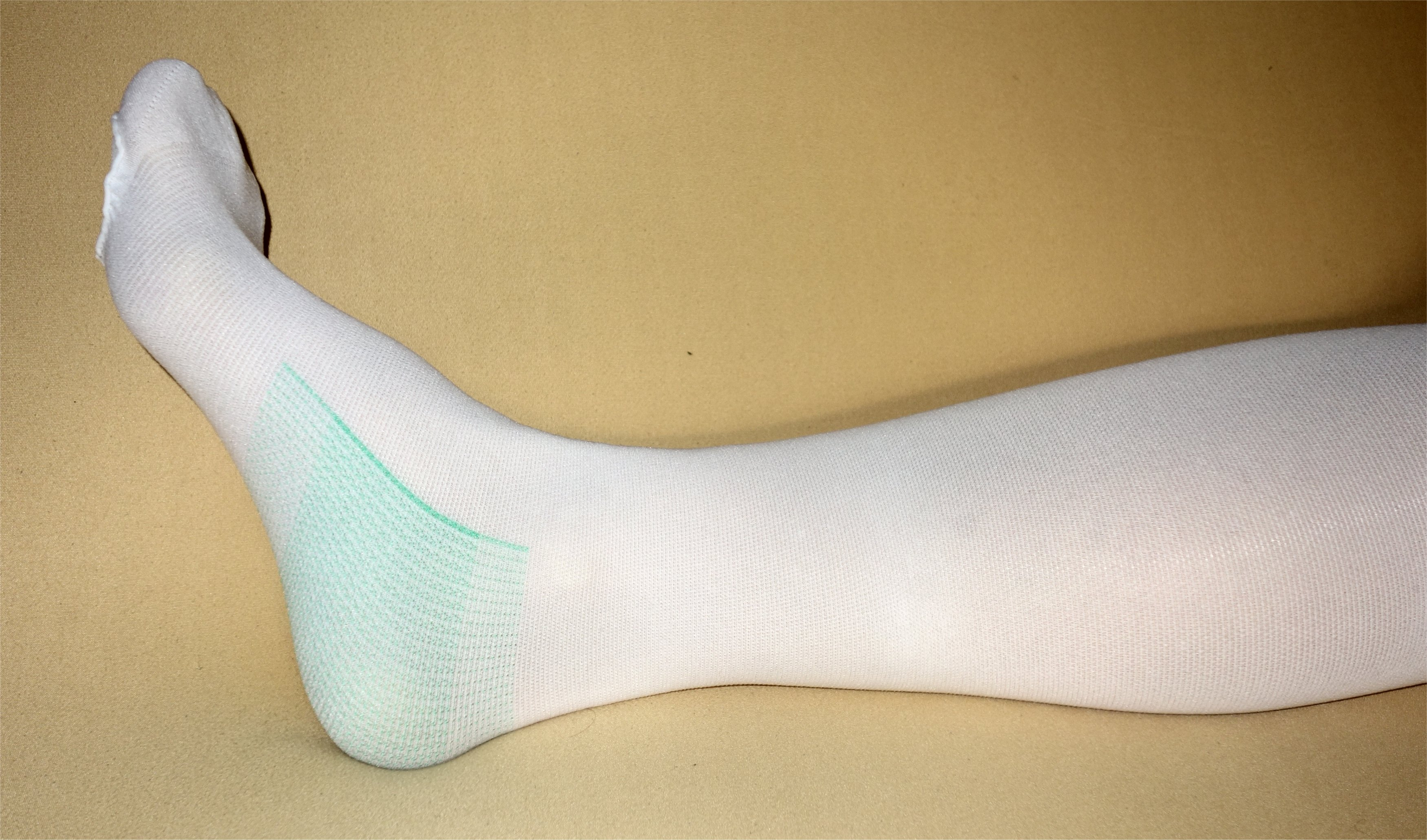 Anti-embolism stocking